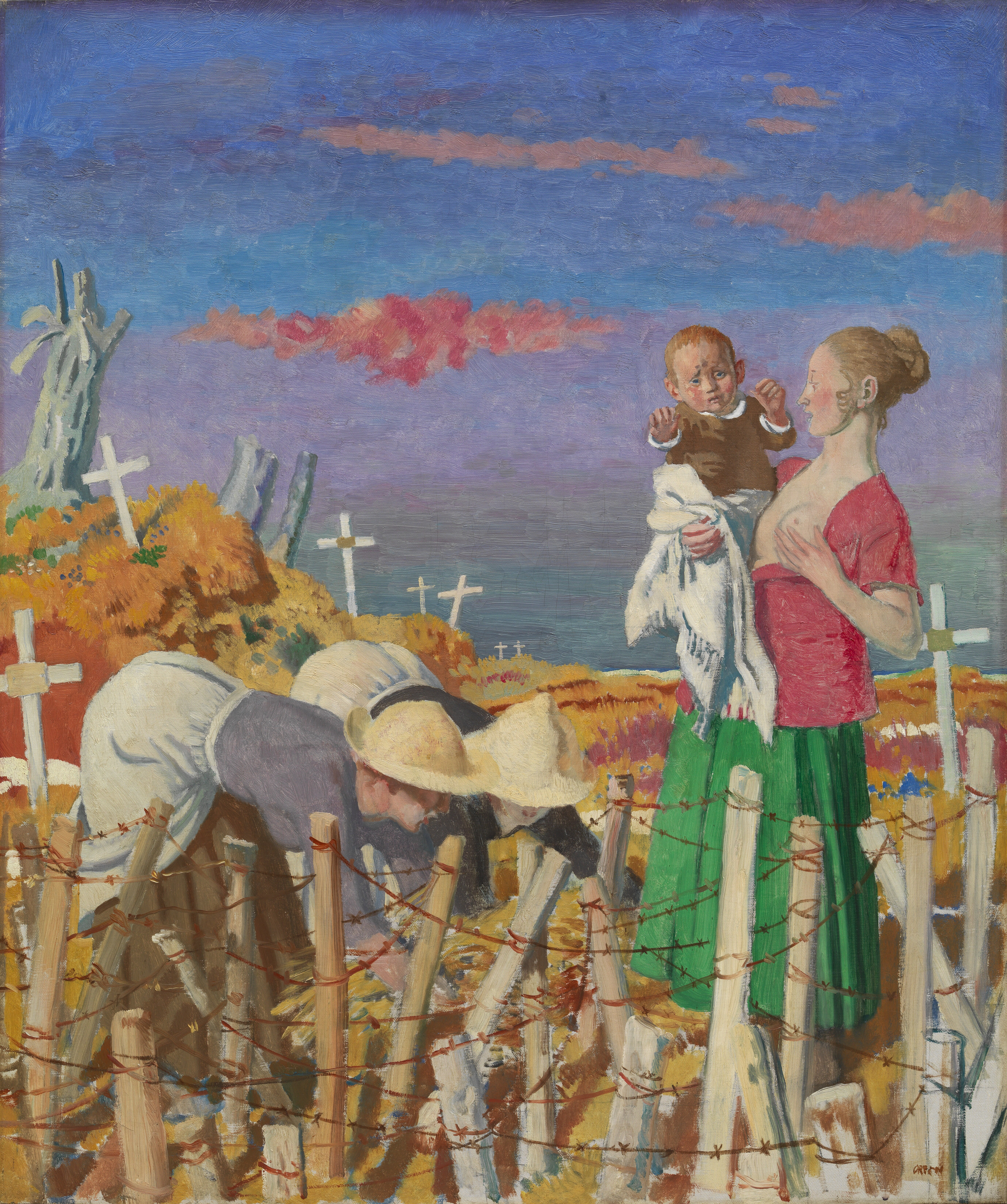 Harvest, 1918 image: A scene with three French peasant women. Two of the women lean towards the ground as if harvesting, though they are actually tending a grave that is covered in stakes with barbed-wire. To the right another woman stands holding a baby. She has unbottomed her blouse and offers her bare breast to the child who looks towards the viewer, crying. The women stand in a field carpeted with coloured grasses, grave markers and shattered trees. The sky above is clear with several soft pink clouds.